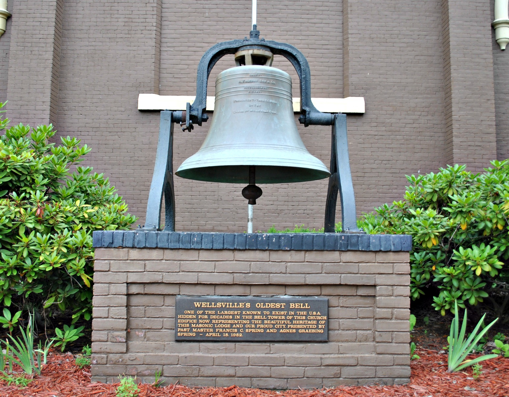 The oldest bell in Wellsville, Ohio. Forged by Fulton & Sons of Pittsburgh, Pa. At the time in was cast it was the largest bell in America. Cast in 1871 it is 44 inches in diameter. Fulton bells are unique because of the crown that suspends it. All Fulton bells have this crown making the identification easy.